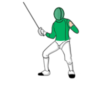 Diagram of a Sabreur.